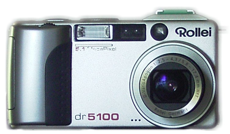 A used Rollei Digitalcamera